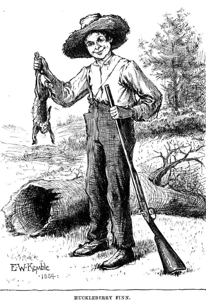 Drawing of Huckleberry Finn with a rabbit and a gun, from the original 1884 edition of the book.